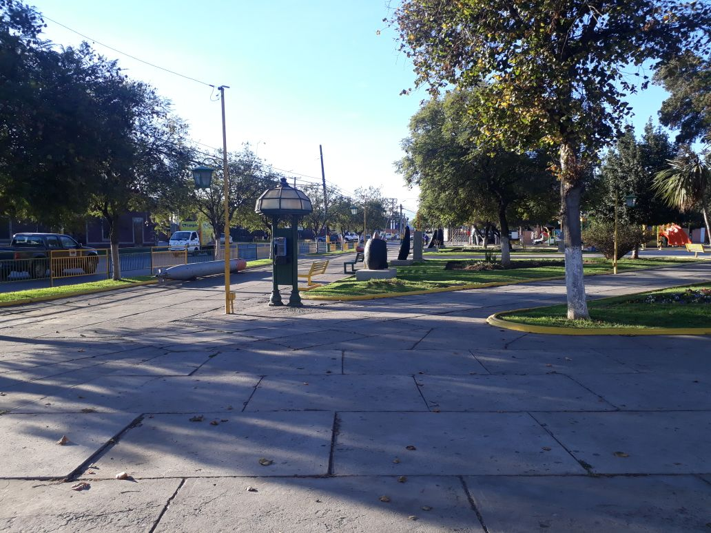 Plaza de Armas, La Cruz, Quillota Province, Valparaiso Region, Chile